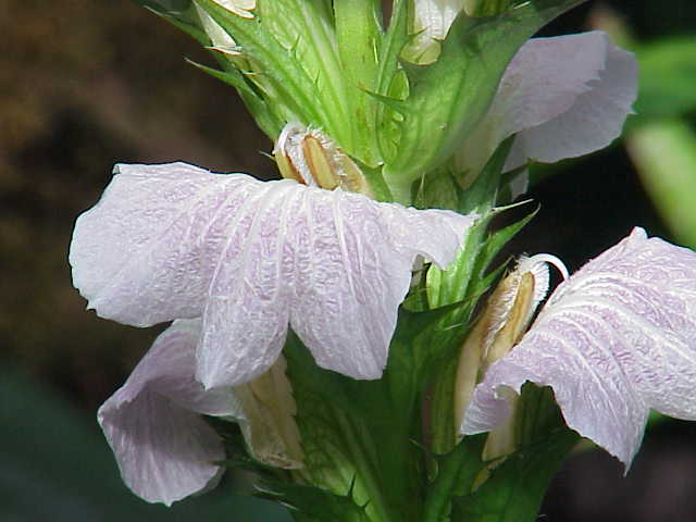 Species: Acanthus montanus Family: Acanthaceae Image No. 2